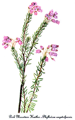 Watercolor painting of Phyllodoce_empetriformis.